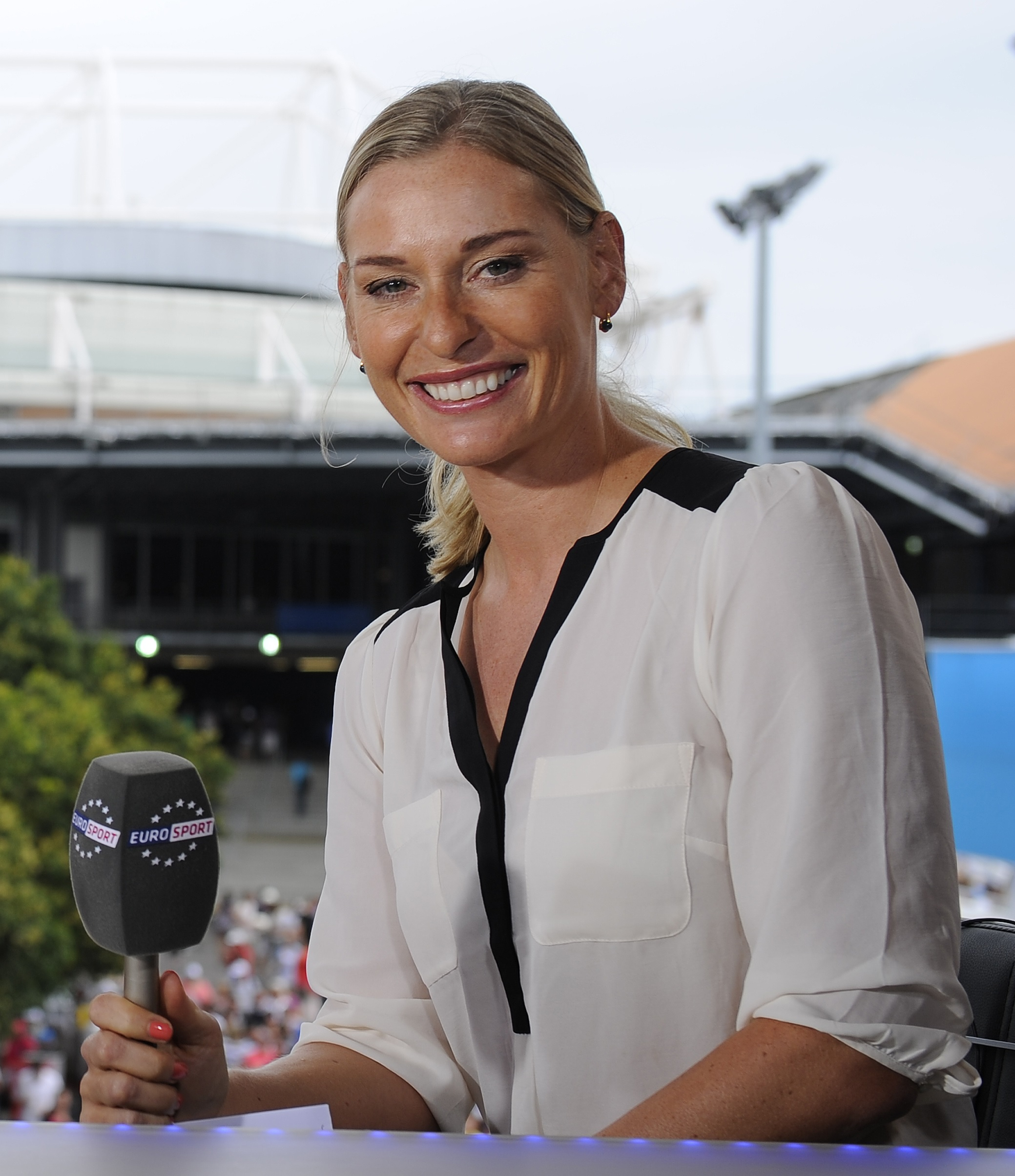 Barbara Schett in the Eurosport studio during the 2014 Australian Open at Melbourne Park.